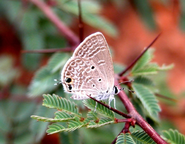 The Small Cupid (Chilades contracta) photographed in Bangalore